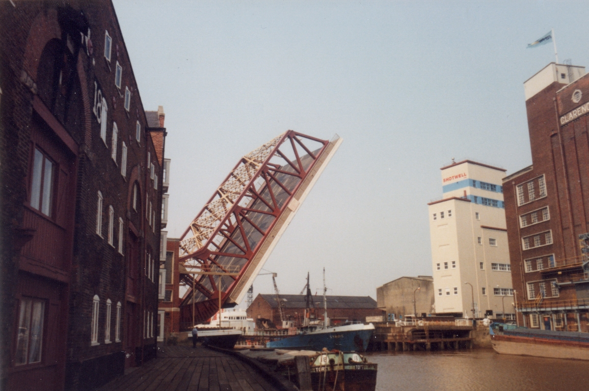 Drypool Bridge on the River Hull, Hull, East Riding of Yorkshire, England. Taken in 1990, looking north from the west bank.